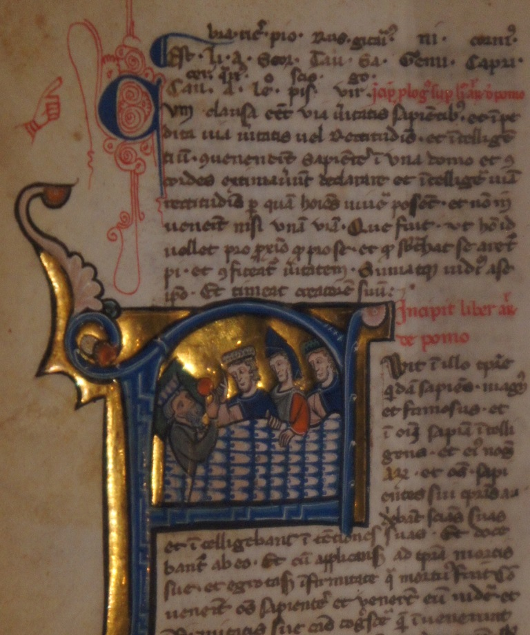 Aristoteles - Albertus Magnus - manuscript, details of page 15va